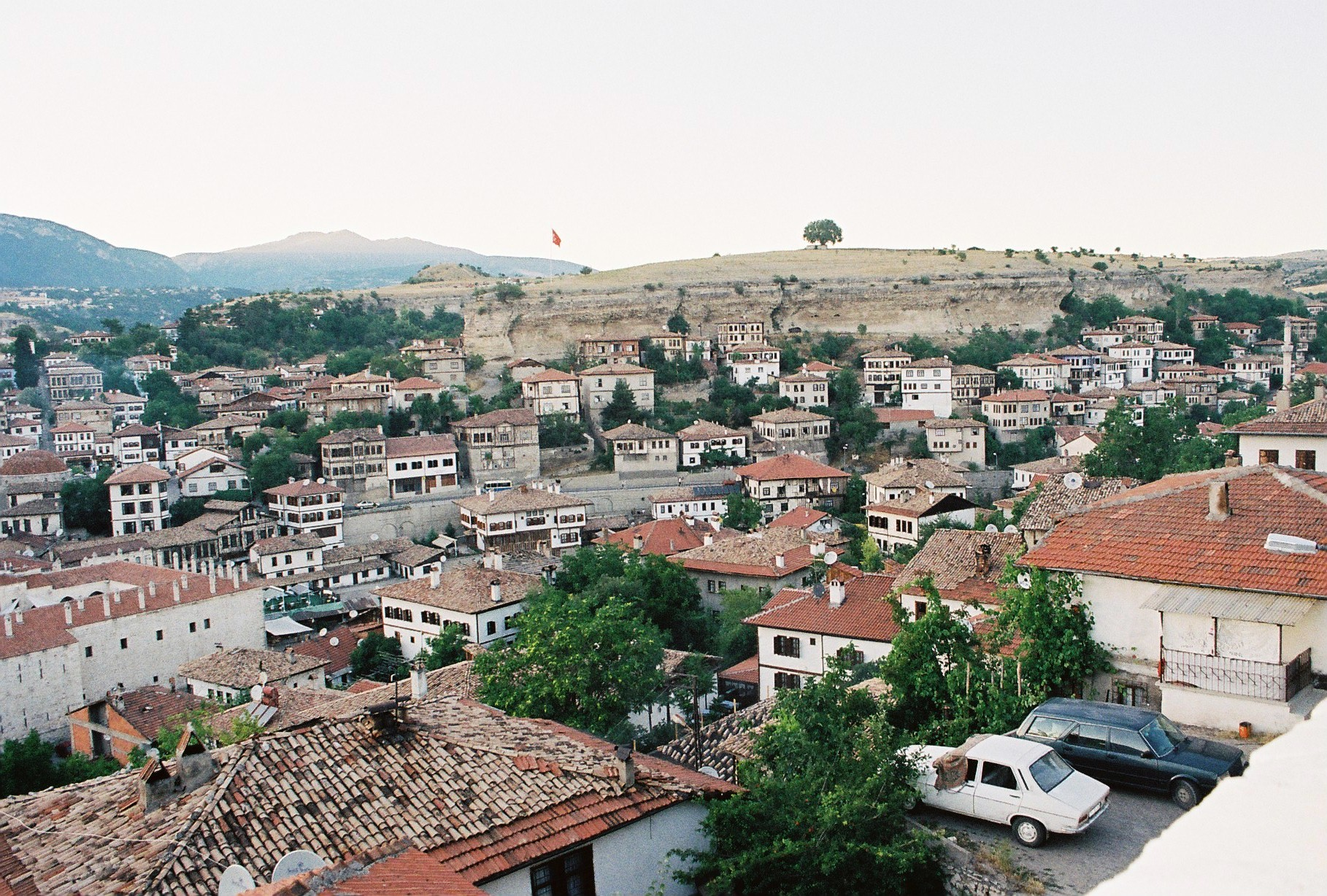 Safranbolu, general view of town